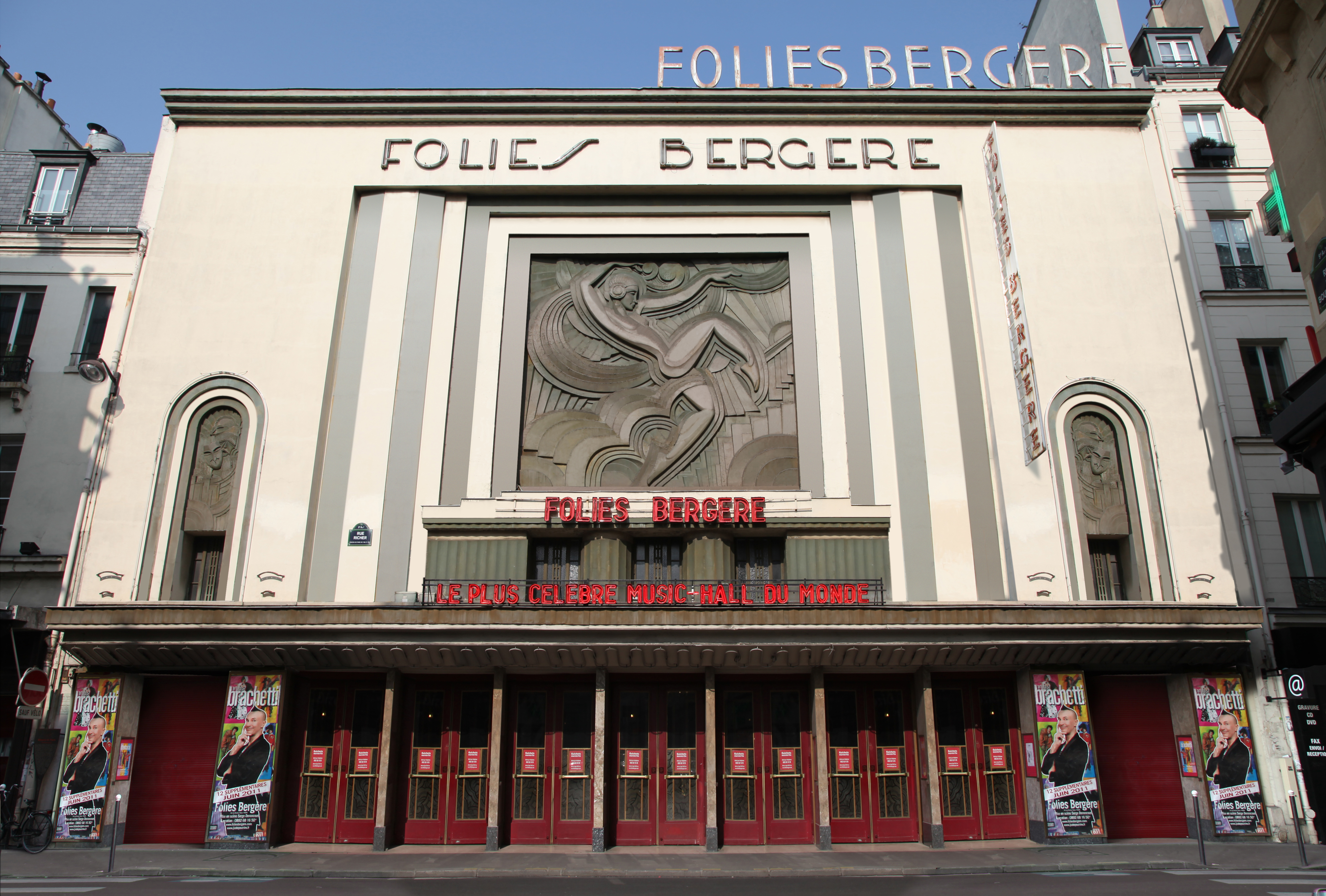 Facade of Folies Bergère